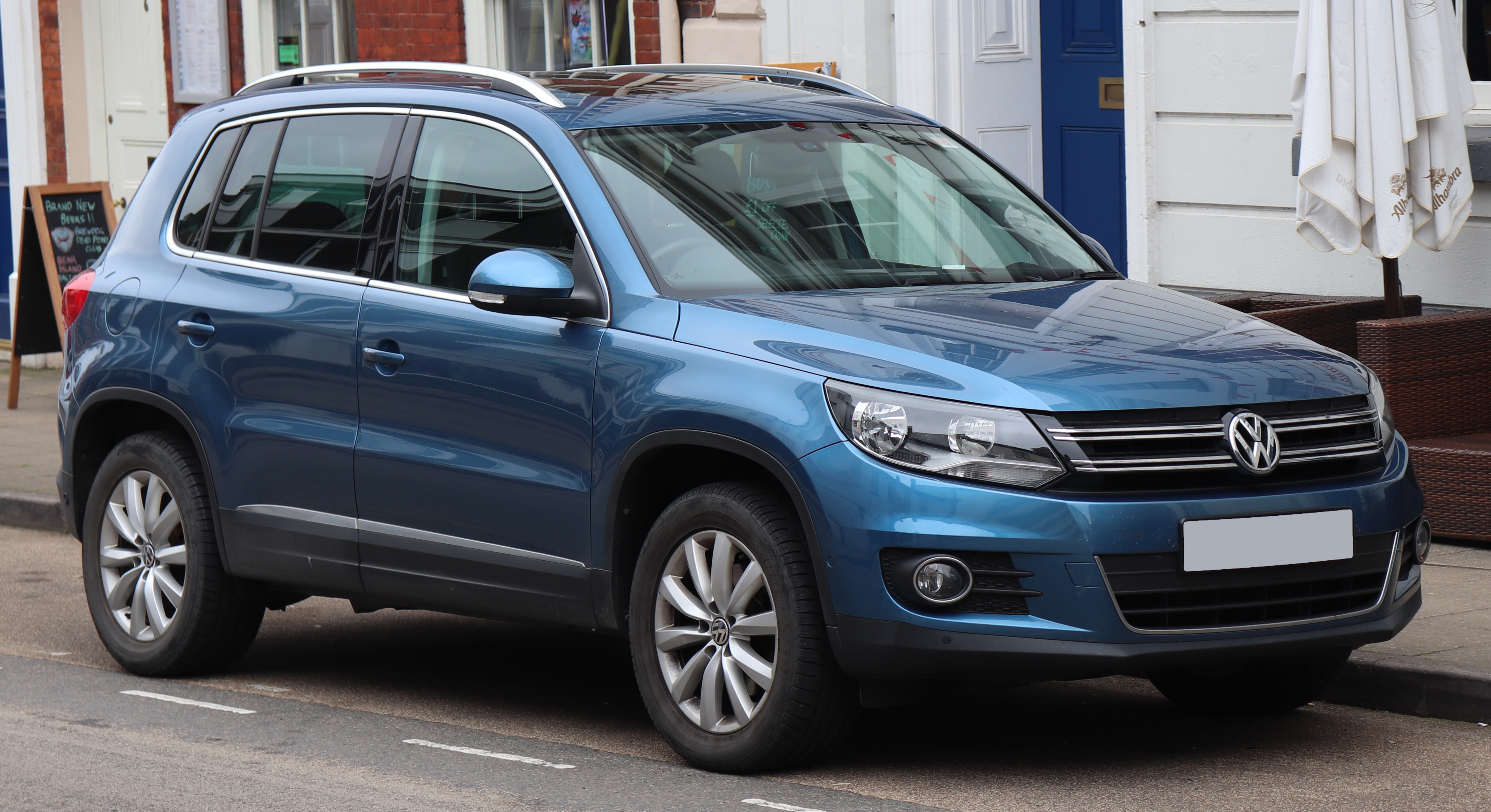 2014 Volkswagen Tiguan Match TDi BMT 4motion 2.0 Front Taken in Warwick